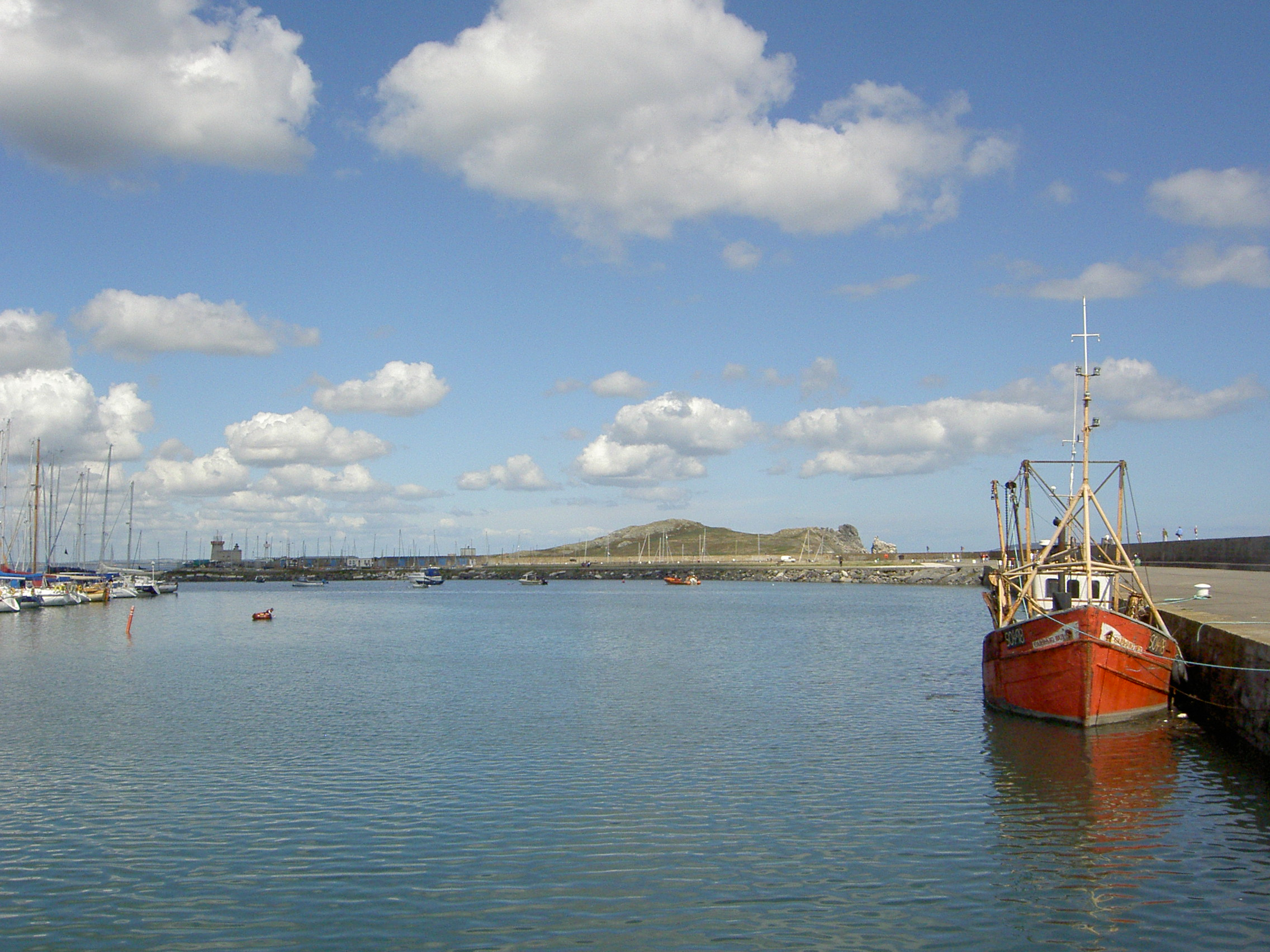 Howth Harbour with a rusty boat in front and Ireland's Eye in the background.